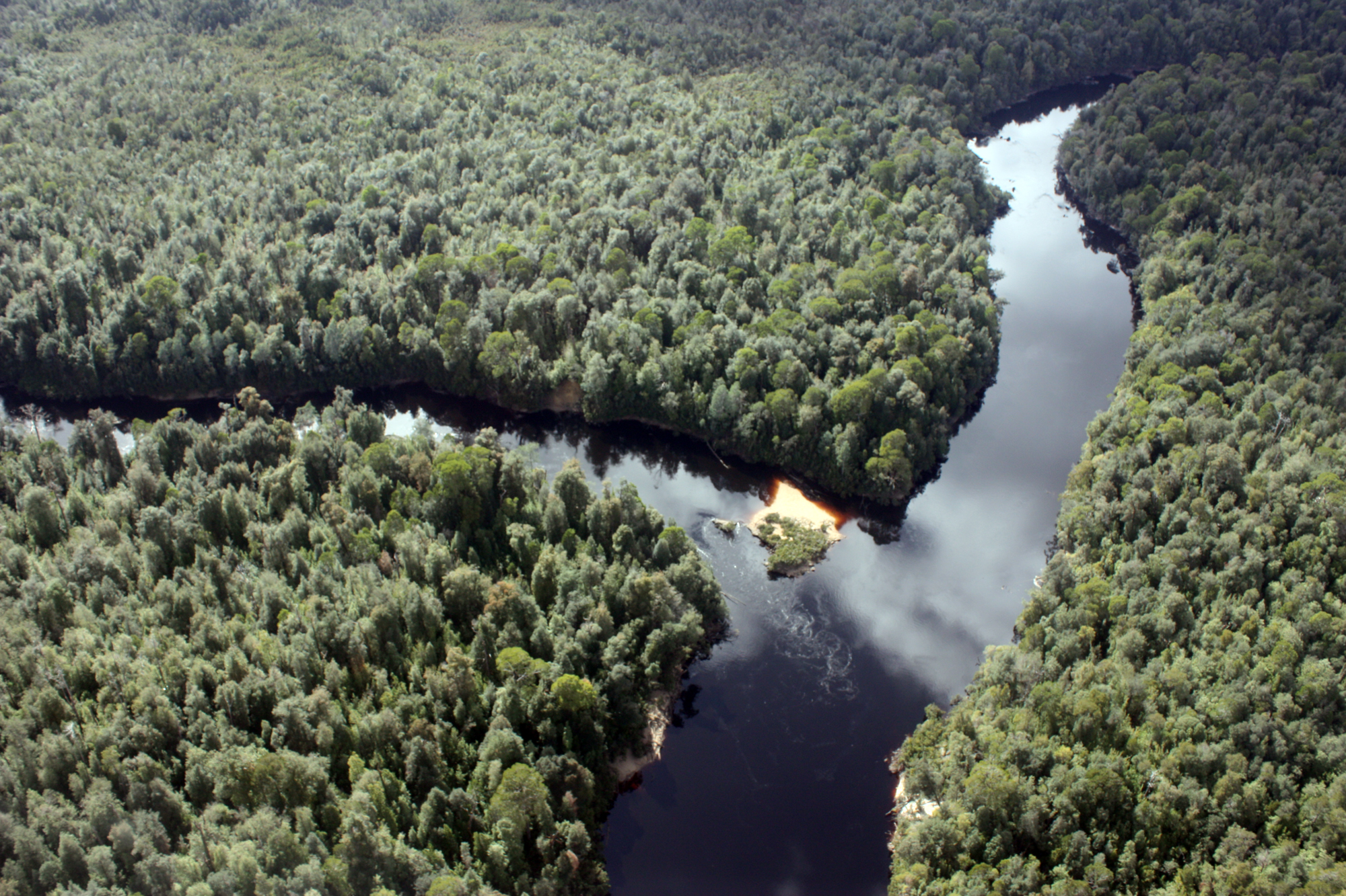 Franklin River, Tasmania meets the Gordon River, Tasmania